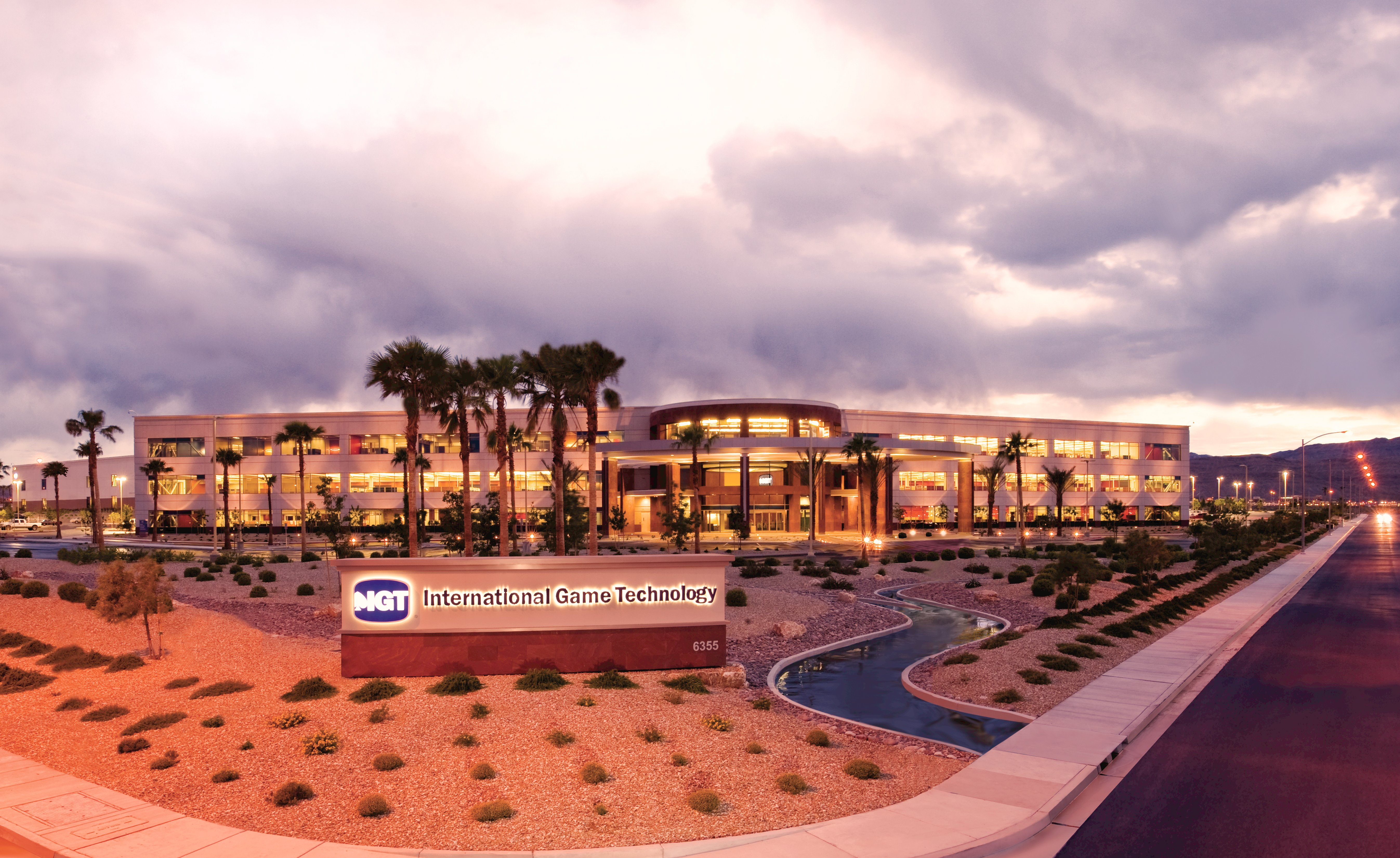 Image of IGT Las Vegas office.